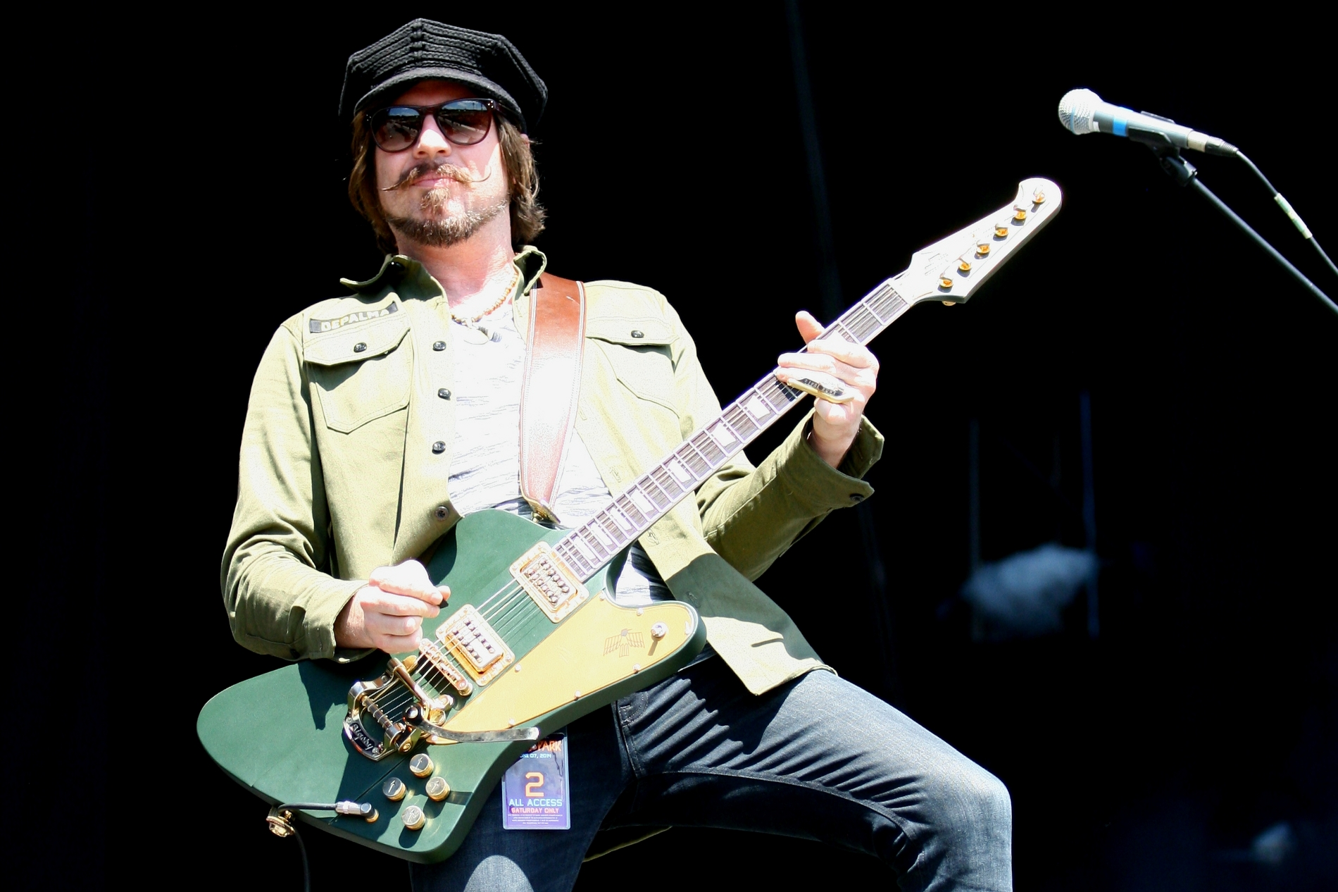 Scott Holiday, guitarist of Rival Sons, on the Centerstage of Rock im Park Festival 2014. Festivalsommer This photo was created with the support of donations to Wikimedia Deutschland in the context of the CPB project "Festival Summer".